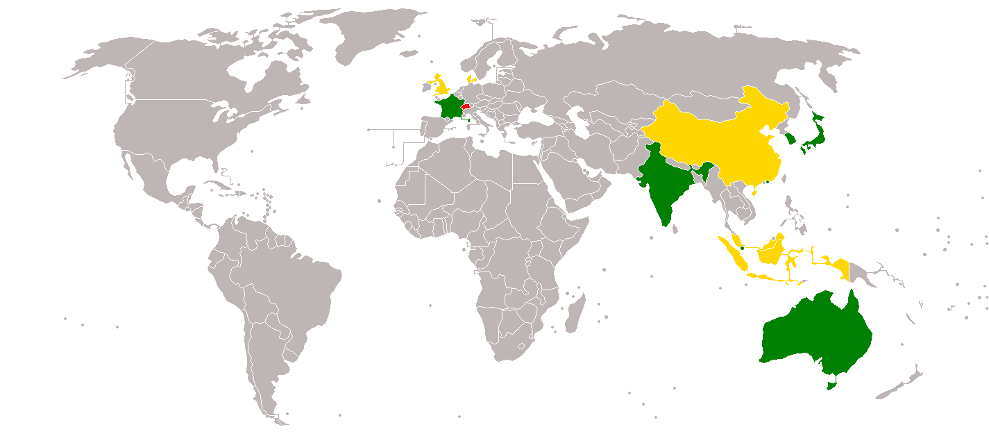 Countries hosted Super Series tournament Premier Series Super Series Defunct